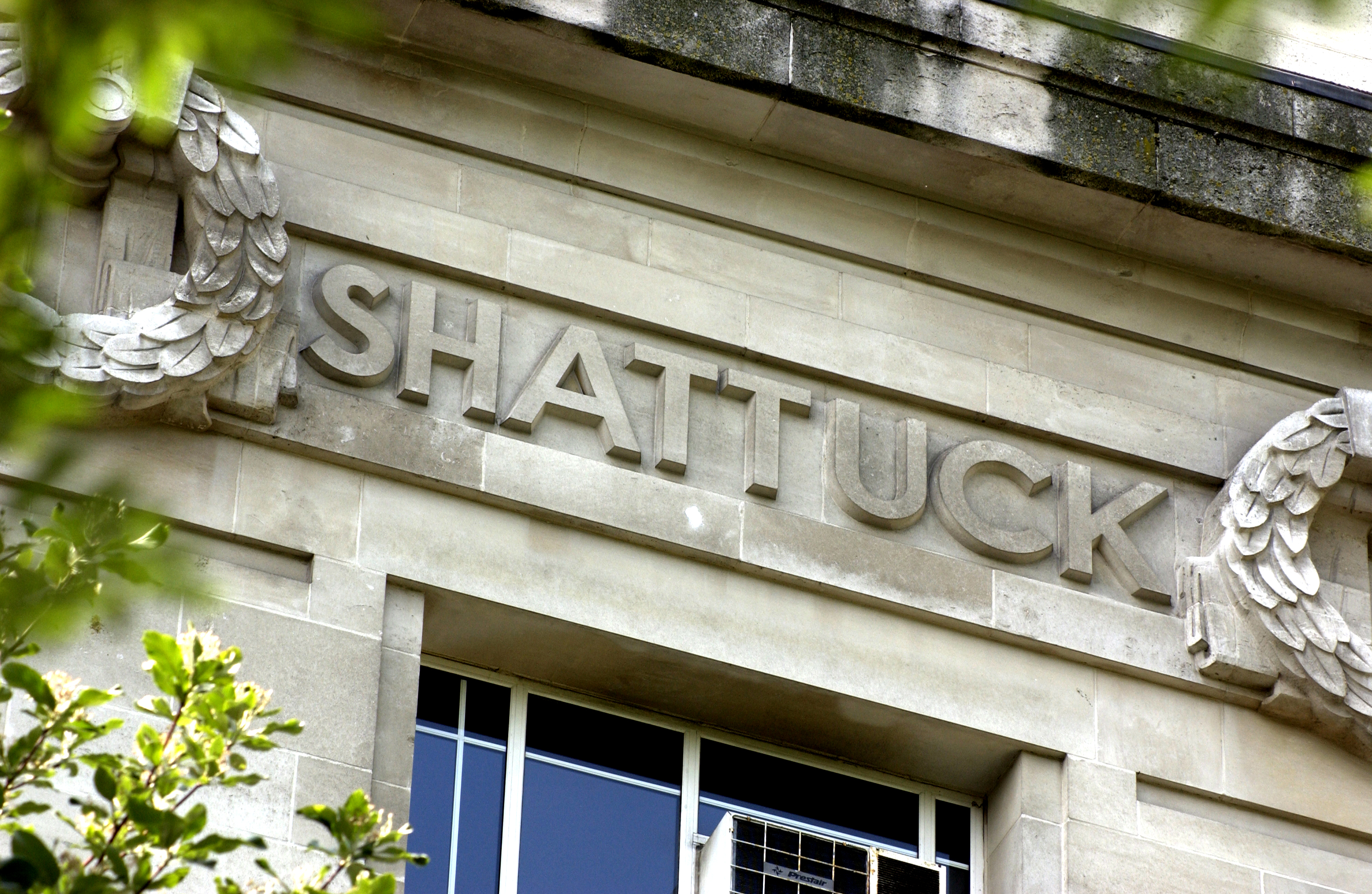 Lemuel Shattuck (1793-1859). Shattuck's name as it appears on the Frieze of the London School of Hygiene & Tropical Medicine. Short bio and reason as to why he is included [1]